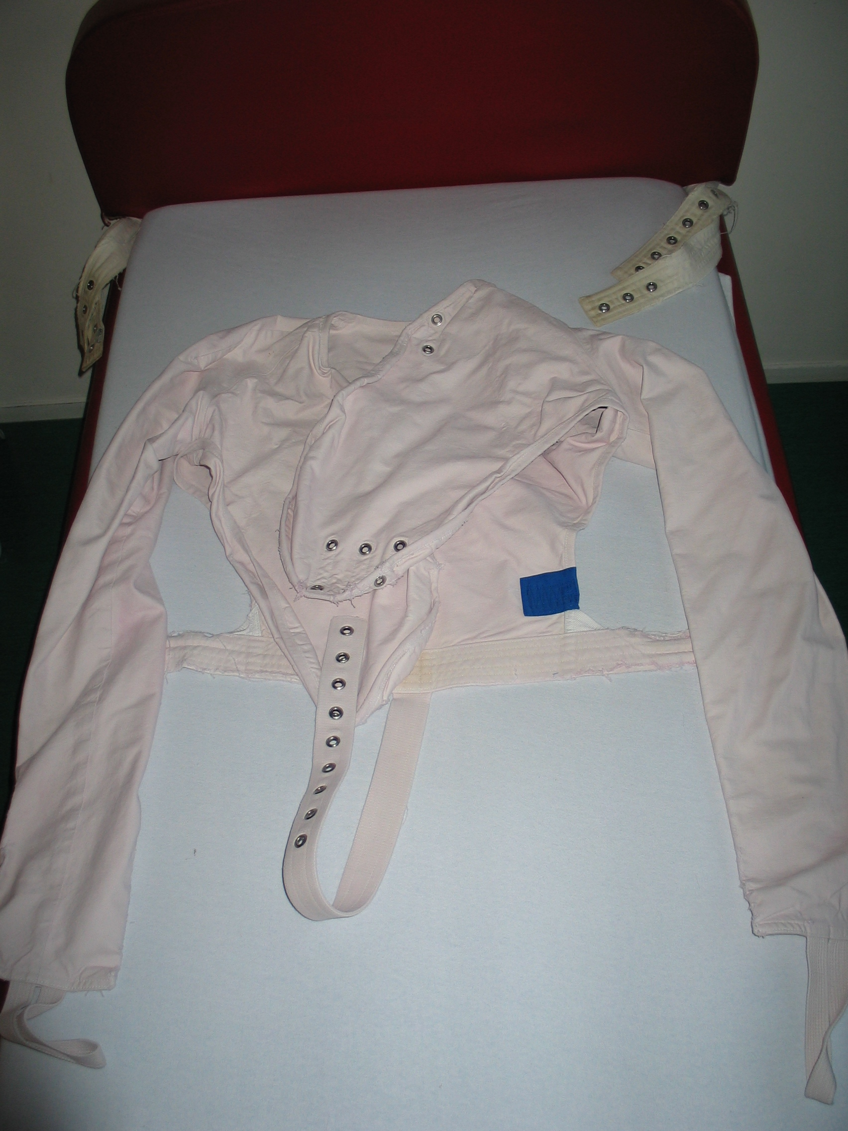 "Slingerhes met staartstuk" used for fixation of a person